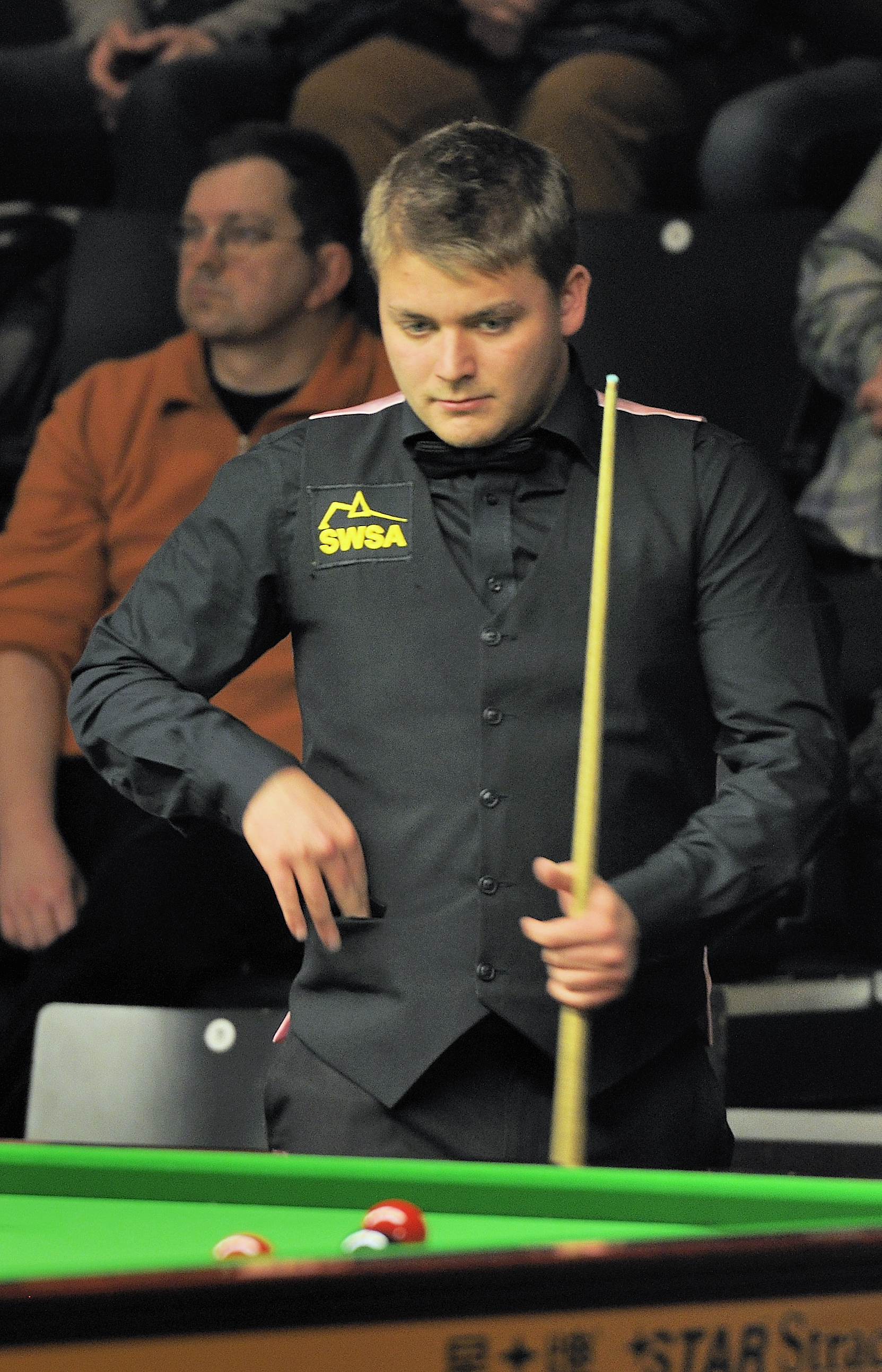 Picture taken in Berlin during the Snooker German Masters in 2014. Michael White.